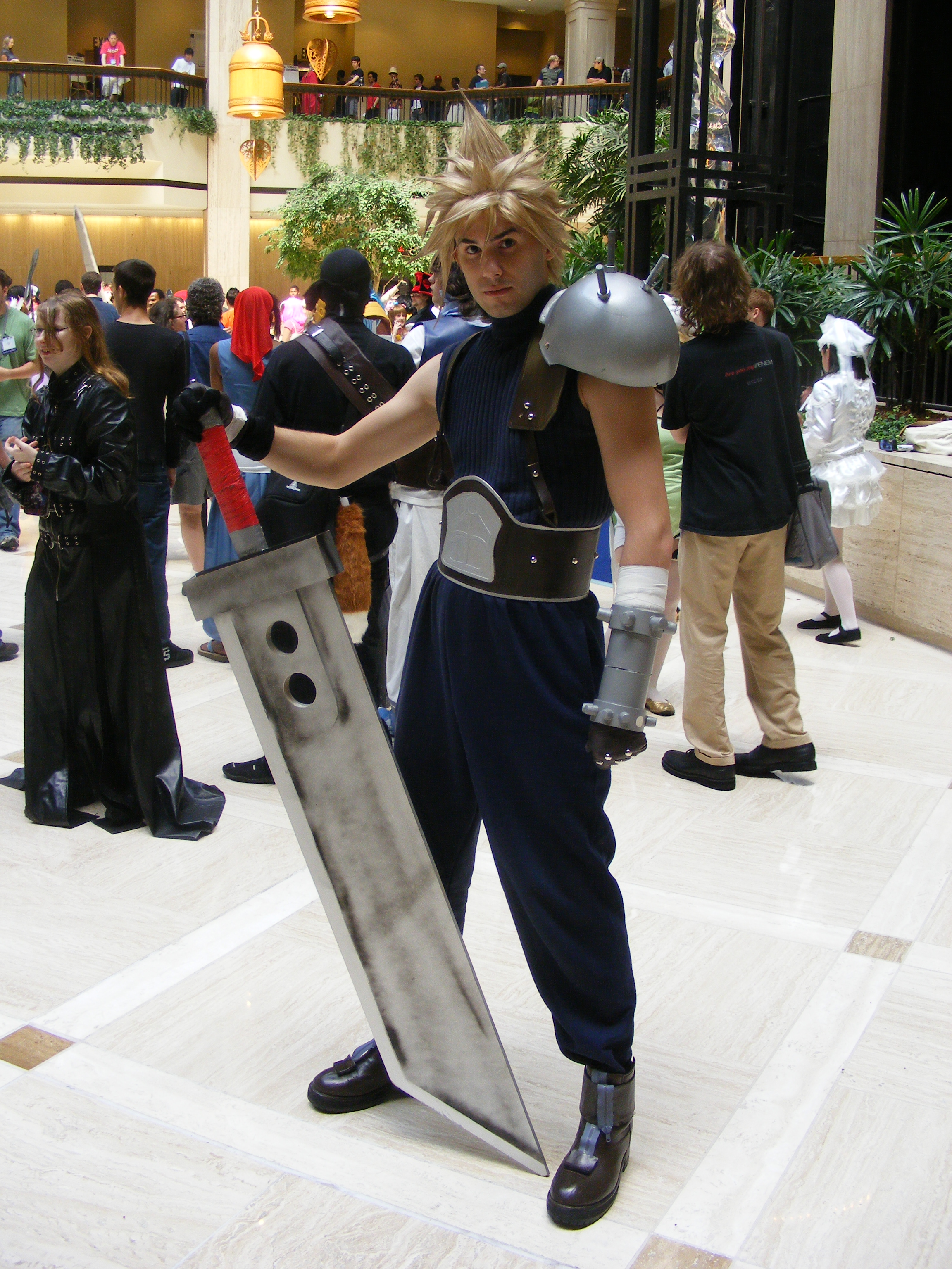 Cosplay photo taken at Anime Weekend Atlanta 14. Cloud Strife posing with his Buster Sword